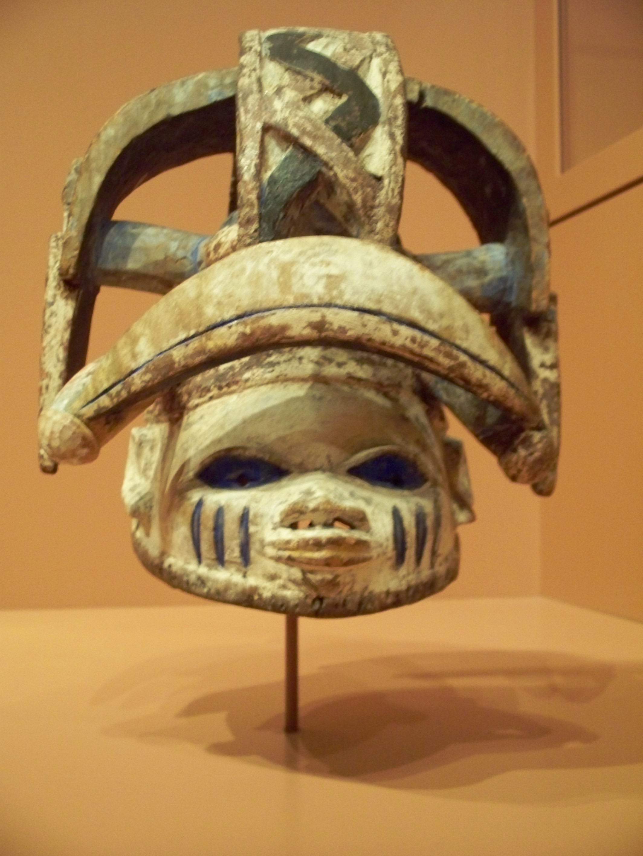 cap mask for Gelende masquerade Culture or people Yoruba people Creation date 1930-1960 Materials wood, pigment Dimensions H: 11 15/16 in. Credit line Gift of Mr. and Mrs. Harrison Eiteljorg Accession number 1989.755 The main theme of the Gelede masquerade is the power of women, "the mothers" or "owners of the world." Elderly women, female ancestors and female deities are honored. The masquerade also serves to entertain and allow artistic expression in dance, music, dress and wooden masks. Finally, masqueraders provide public criticism of improper behavior. This mask includes a prominent crescent moon above the forehead, which may refer to the supernatural powers of kings to uncover plots and disorder within their realms. The upper part of the mask includes a female headwrap, penises and sheathed knives. The knives may refer to Ogun, the god of iron. Wikipedia Loves Art at the Indianapolis Museum of Art This photo of item # 1989.755 at the Indianapolis Museum of Art was contributed under the team name "Opal_Art_Seekers_4" as part of the Wikipedia Loves Art project in February 2009. Indianapolis Museum of Art The original photograph on Flickr was taken by Forever Wiser—please add a comment to the original Flickr page whenever a use has been made on Wikipedia or another project. Project galleries on Flickr: this institution, this team